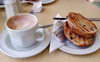 A toasted currant teacake with Mocha.